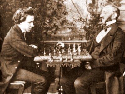 Paul Morphy and Johann Löwenthal playing chess